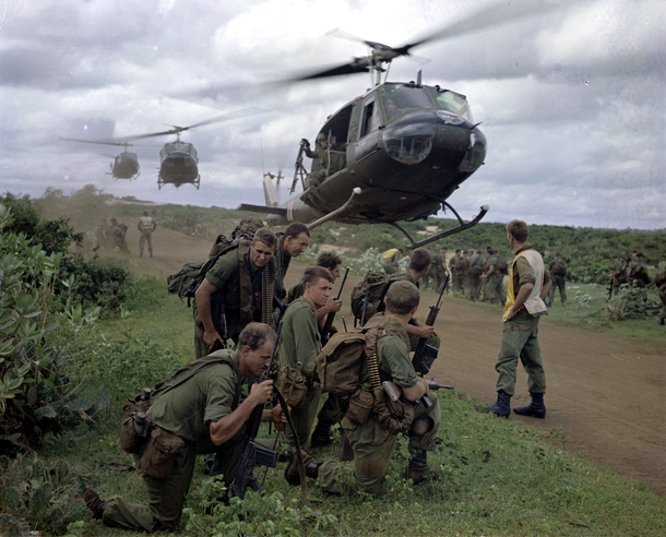 AWM photo EKN/67/0130/VN. Members of 5 Platoon, B Company, 7th Battalion, The Royal Australian Regiment (7RAR), just north of the village of Lang Phuoc Hai, beside the road leading to Dat Do. United States Army Iroquois helicopters are landing to take them back to Nui Dat after completion of Operation Ulmarra, the cordon-and-search by 7RAR of the village of Lang Phuoc Hai. Operation Ulmarra was conducted by 2nd Battalion, the Royal Australian Regiment (2RAR) and 7RAR with support elements. Left to right: Private (Pte) Peter Capp (kneeling); Pte Bob Fennell (crouching, facing camera); Corporal Bob Darcy (left of Fennell); Pte Neal Hasted (centre, front); Pte Ian Jury (centre, back, holding rifle); Pte Colin Barnett (front, right); Lance Corporal Stan Whitford (left of Barnett); the helicopter marshal at right is Pte John Raymond Gould, 7RAR. The United States Army Iroquois UH-1D helicopter is operated by 2 Platoon, 162nd Assault Helicopter Company, 11th Combat Aviation Battalion. (Having achieved almost the status of an icon, this image was chosen for, and is etched on, the Australian Vietnam Forces National Memorial on Anzac Parade, Canberra, ACT, dedicated in October 1992) (A black and white version of this image held by the AWM as COL/67/0781/VN)